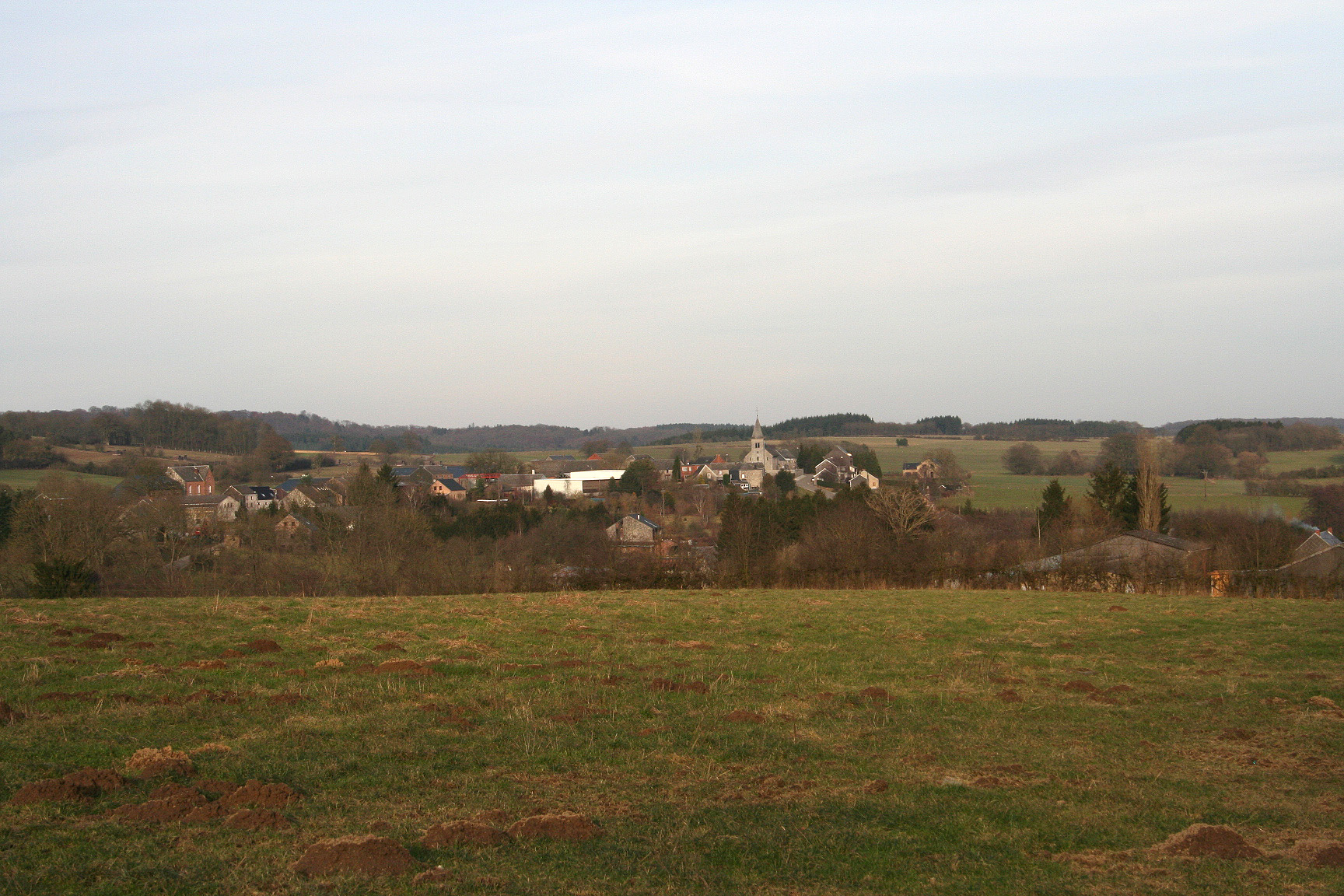 Nettinne (Belgium), view on the village.